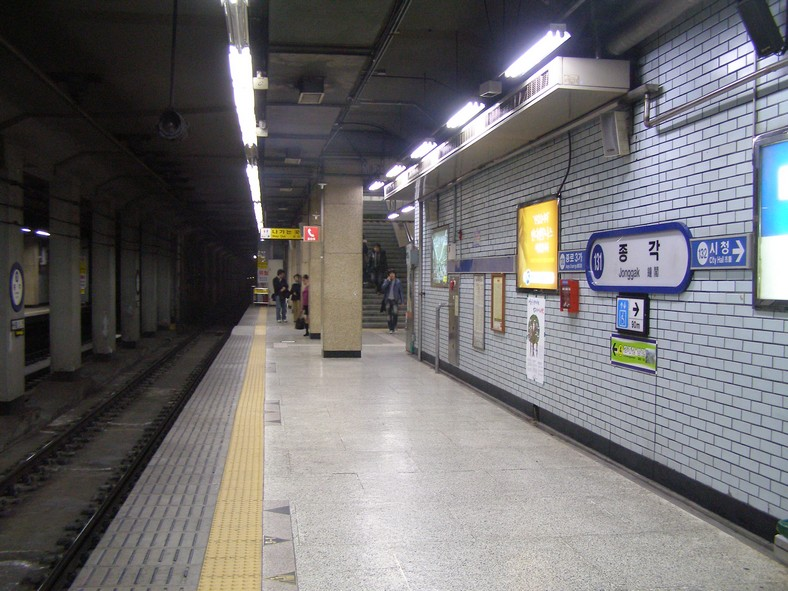 Jonggak Station